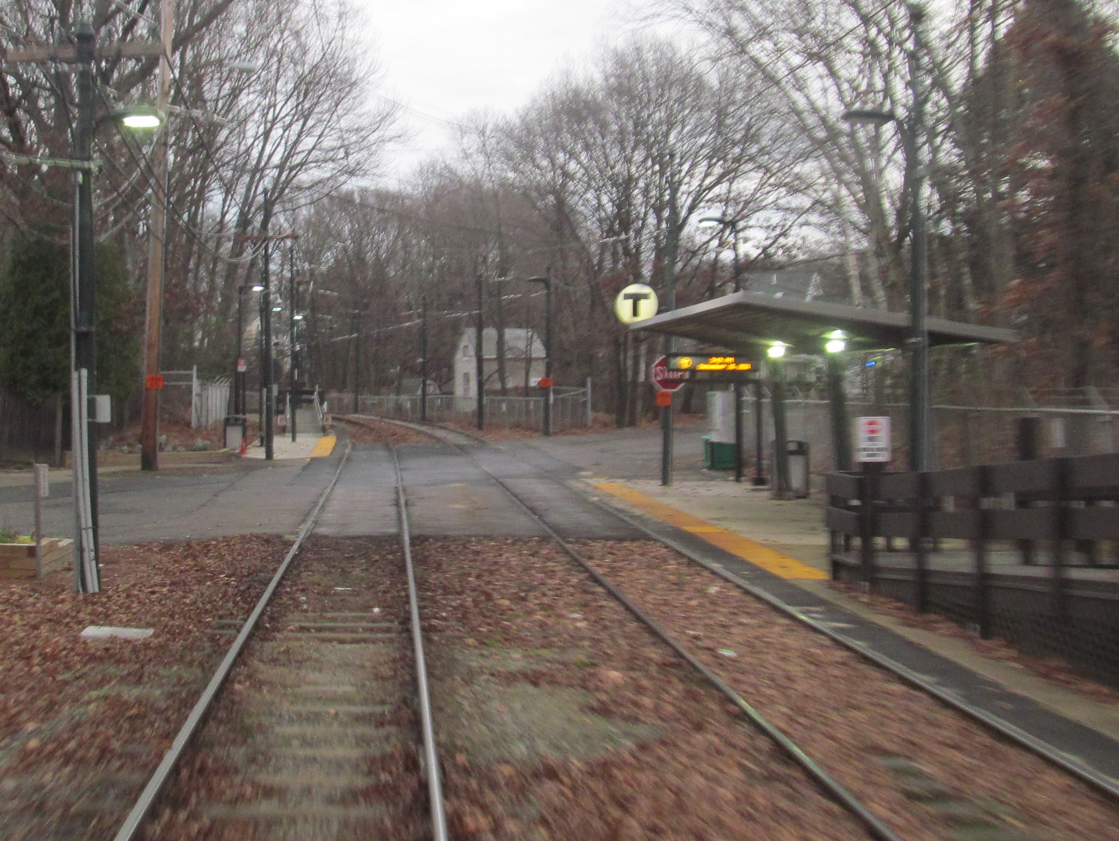 Capen Street station on the Ashmont-Mattapan Line